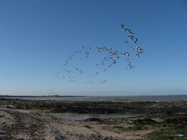 Brent Geese at Bremore Brent Geese take flight from Gormanston strand, probably disturbed by walkers on a sunny St. Patrick's Day afternoon.